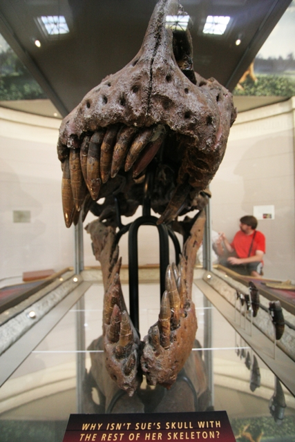 Sue's original head, Field Museum, Chicago, Illinois. By Robert Lawton (self), 2005.